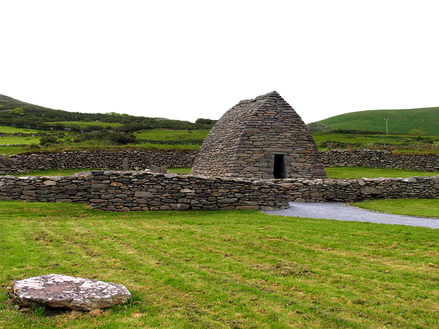 Gallarus Oratory. This is in the north western section of the square.